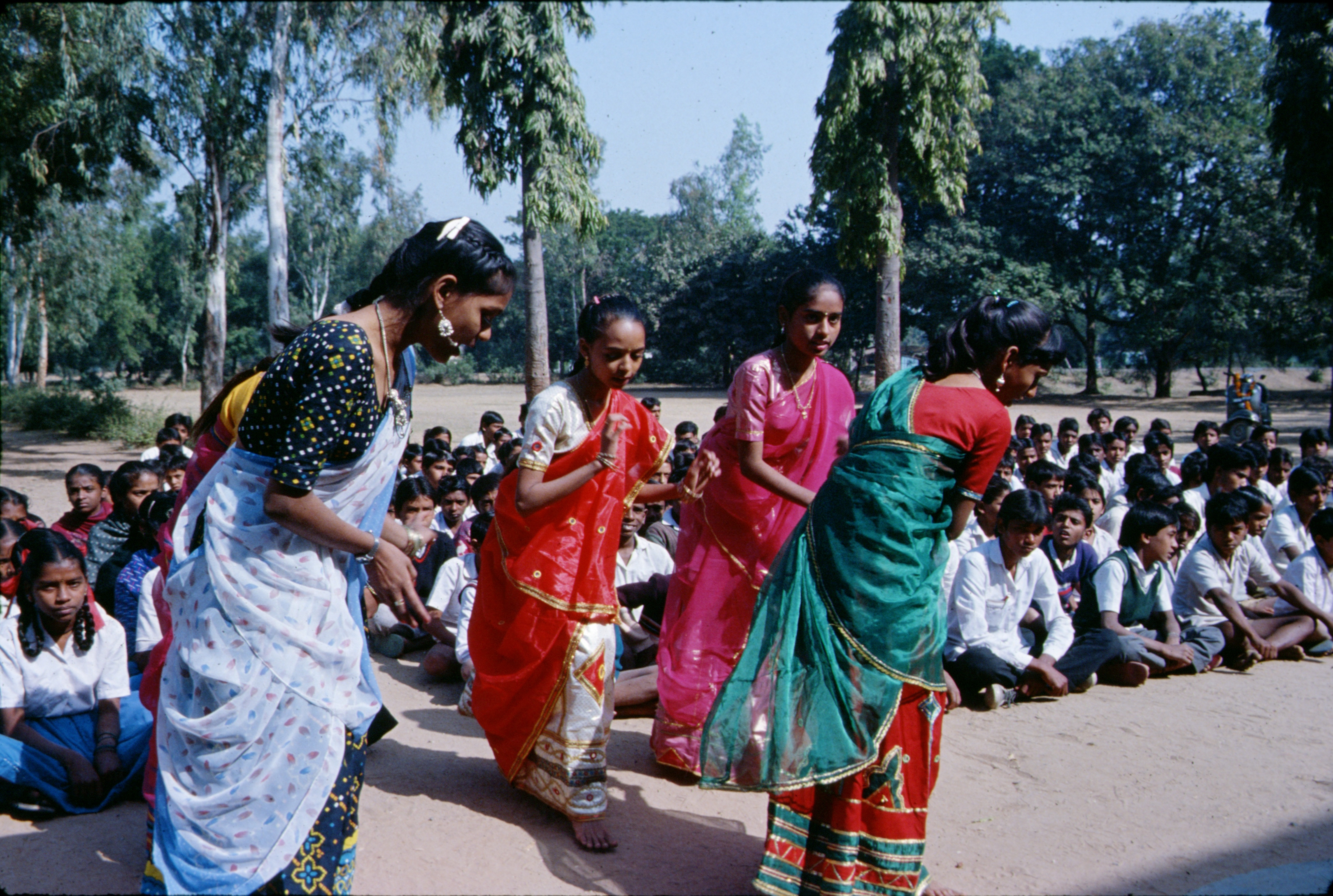 Welcome with traditional dance during the International Walk 1991, Kheda district, Gujarat